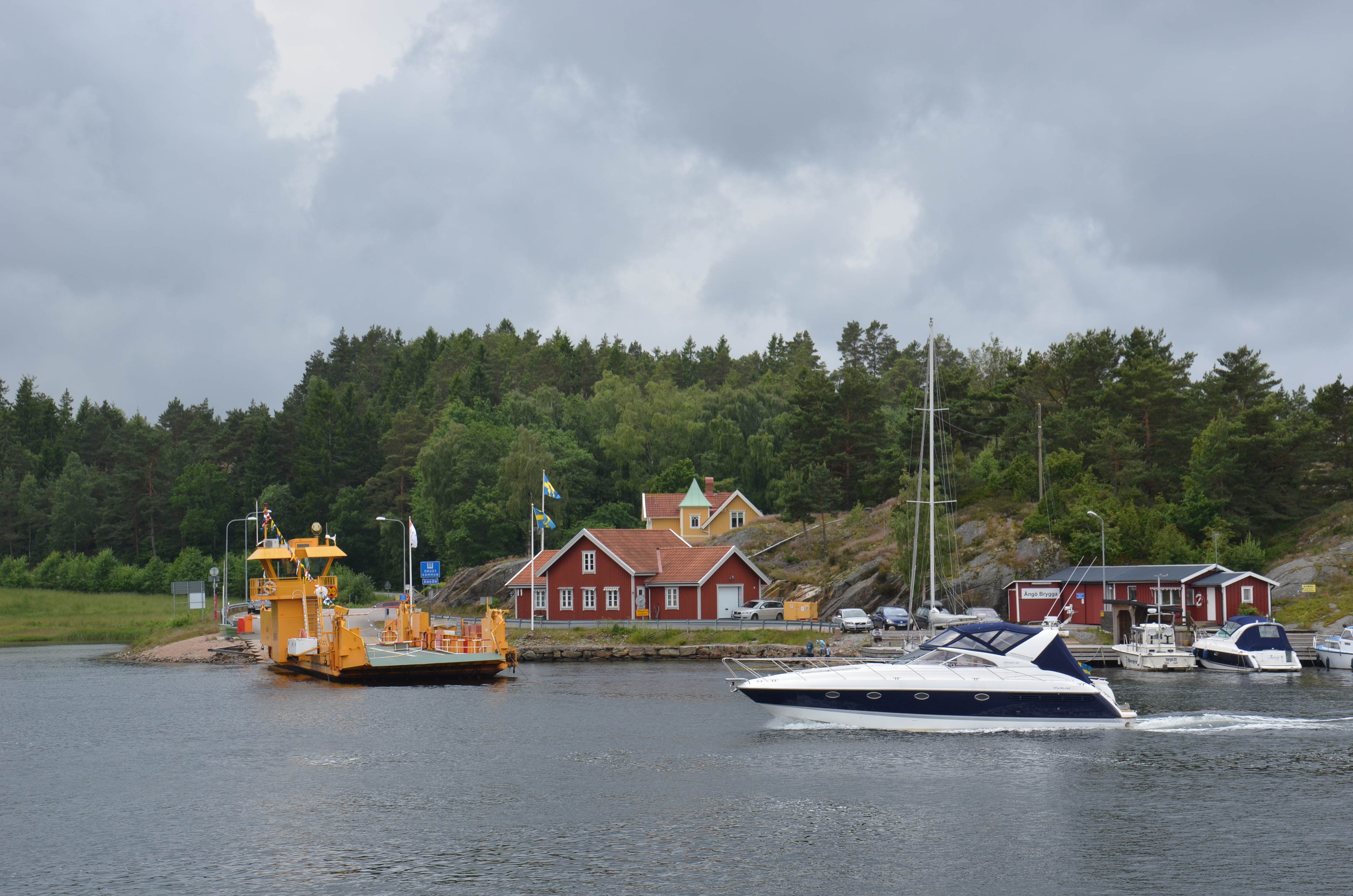 M/S Malin , cable ferry Ängöleden, Sweden, at Ängön